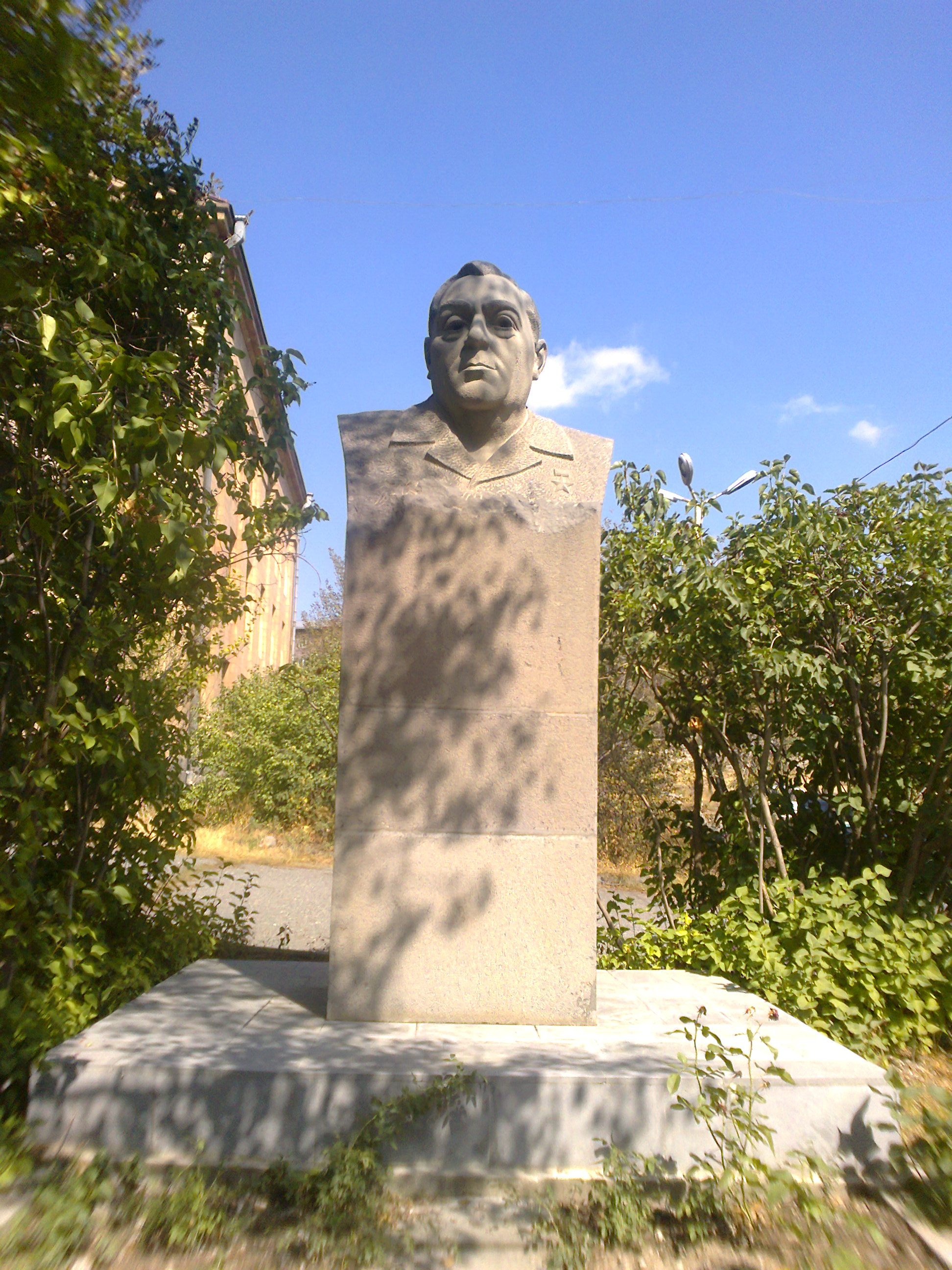 The statue of Armenak Mnjoyan in the courtyard of the Institute of the Organic Chemistry in Arabkir, Yerevan